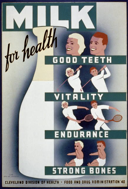 WPA poster encouraging milk drinking; shows active couple and large milk bottle. 1940